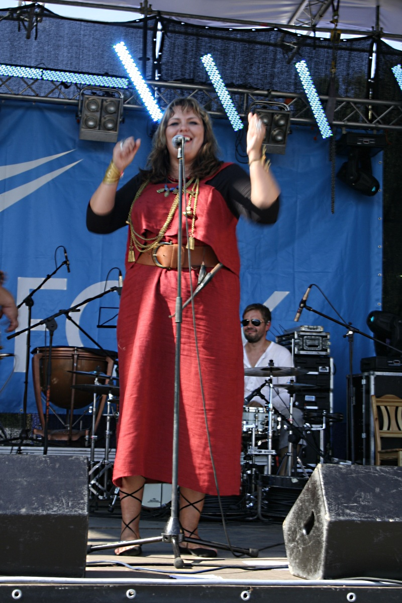 Julgi Stalte performing in Käsmu, Estonia in August 2009.